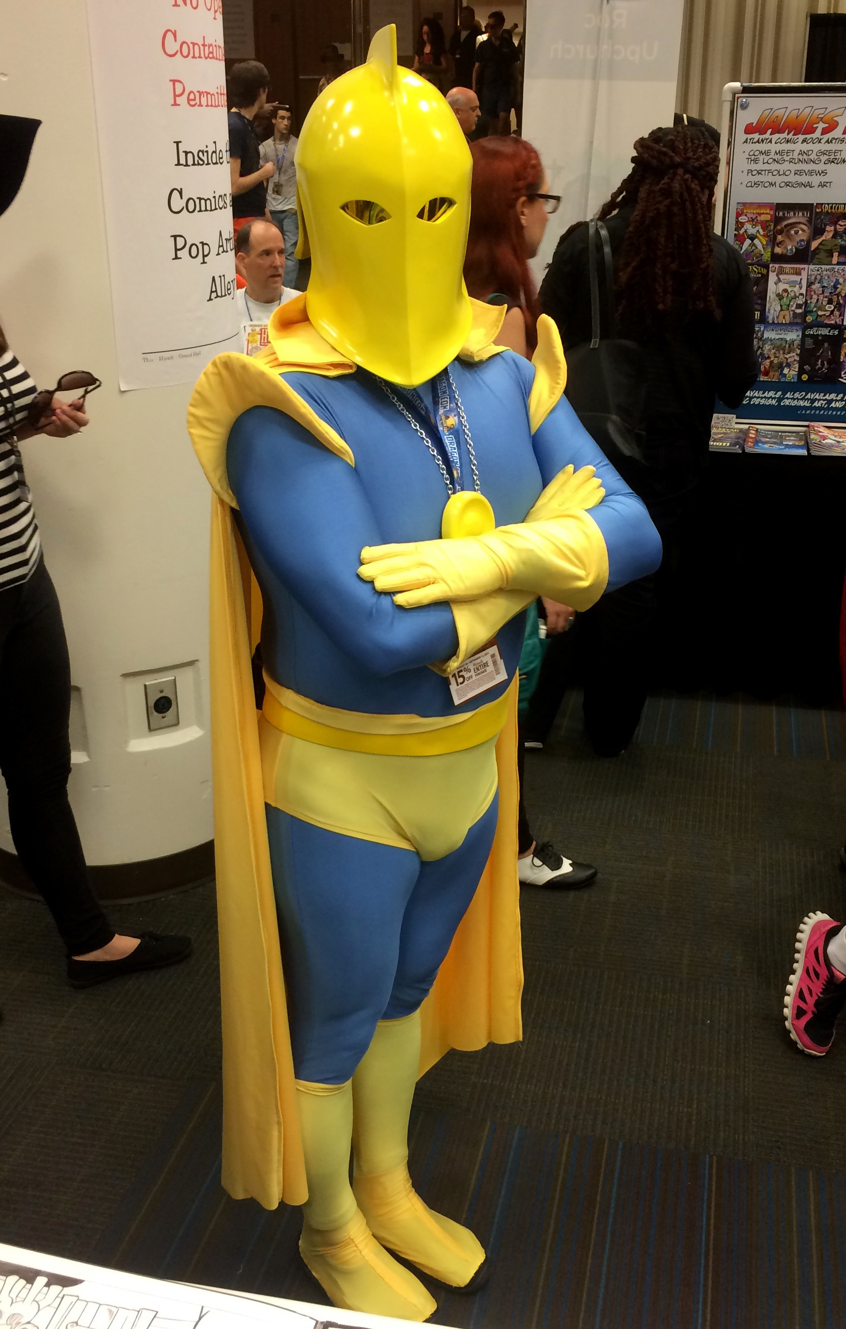 Flash Photo Casual Cosplayer cosplaying as Doctor Fate (from DC Comics) at Dragon Con 2014.